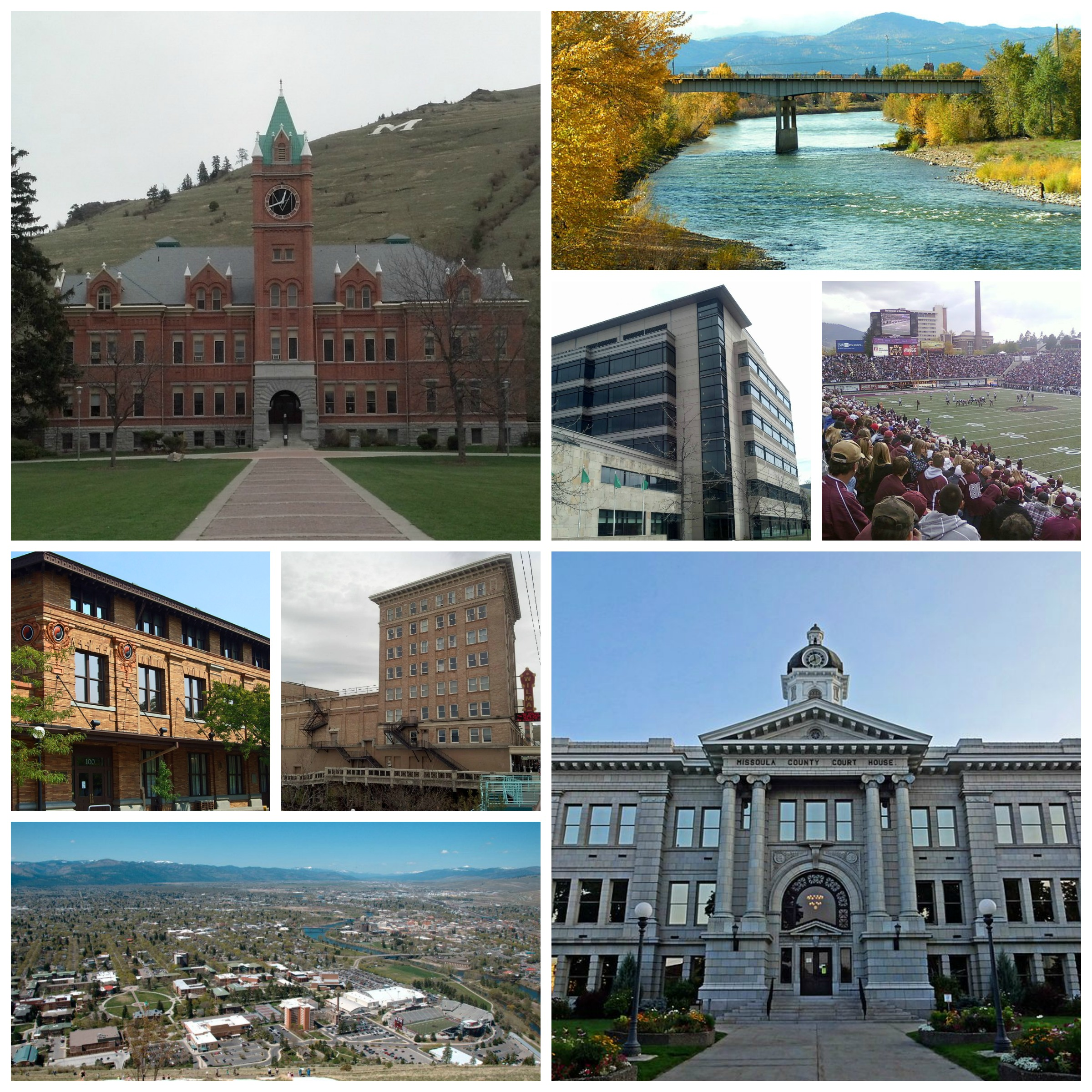 Collage made by Missoulian of Wikipedia